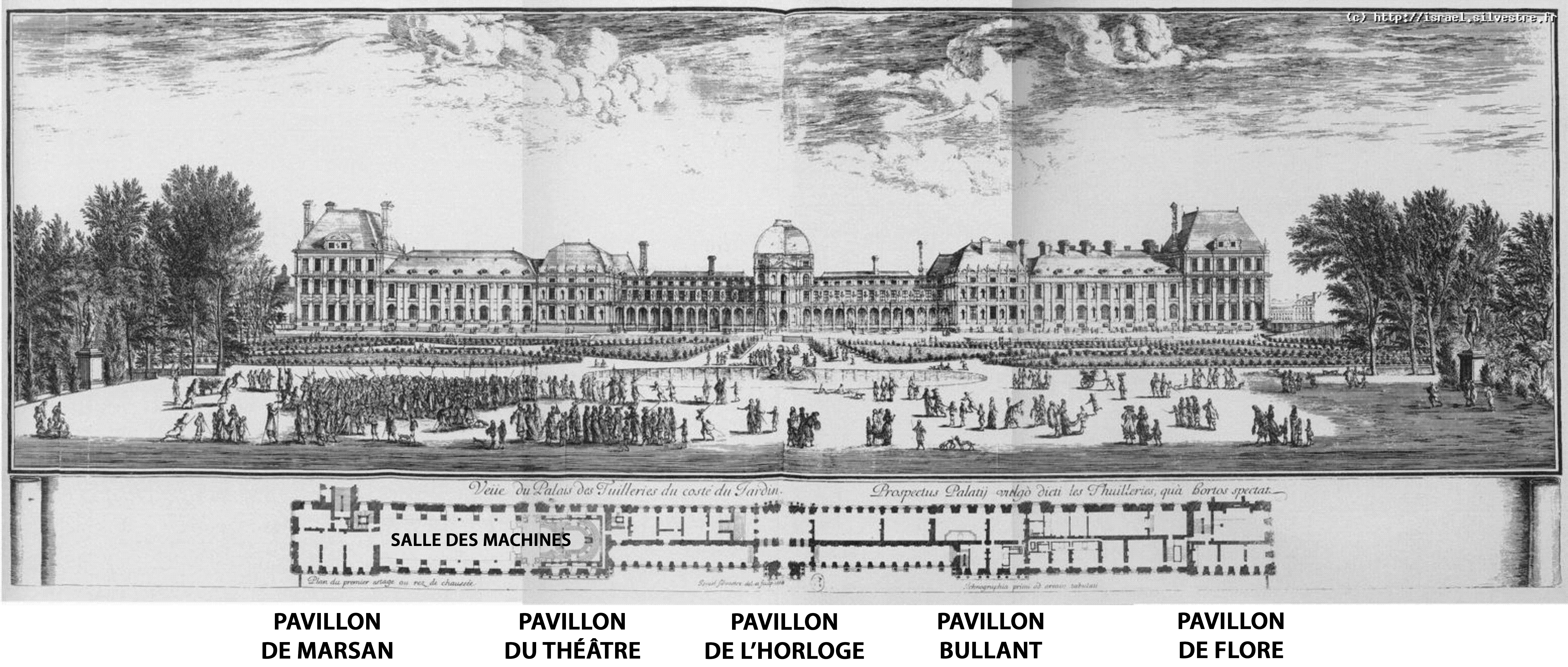 The Tuileries Palace engraved by Israel Silvestre